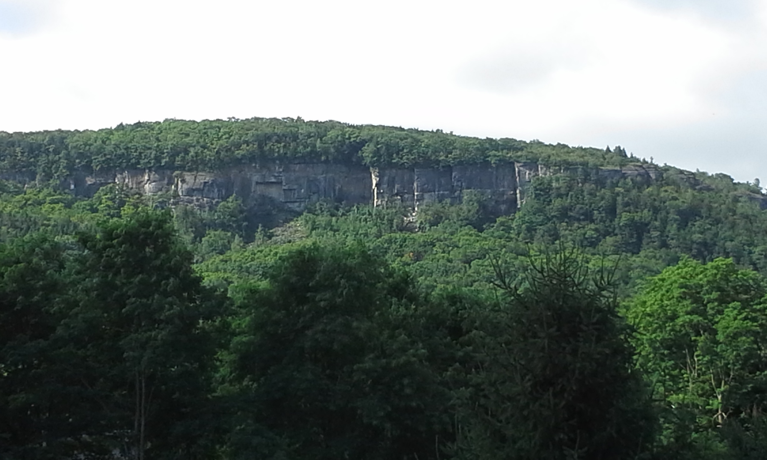 as seen from NY State Rte 156, between Altamont and Voorheesvile